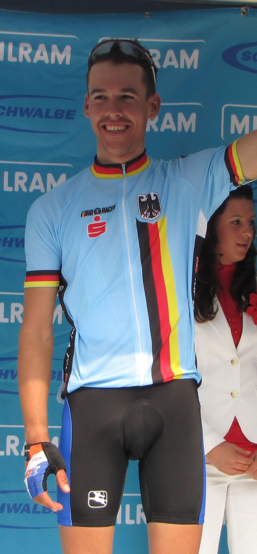 Mathias Belka